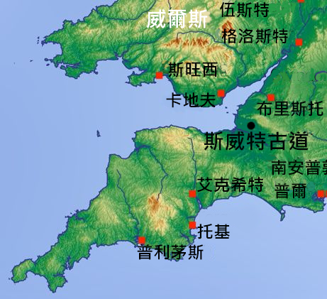 Sweet track on the Map